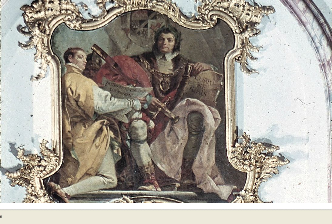 Byzantine Emperor Justinian I as the giver of the Codex Juris Civilis Deitsch: Kaiser Justinian als Stifter des Codex Juris Civilis. Würzburg, Fürstbischöfliche Residenz. 1749/1753